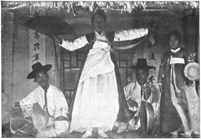 A pretty sorceress